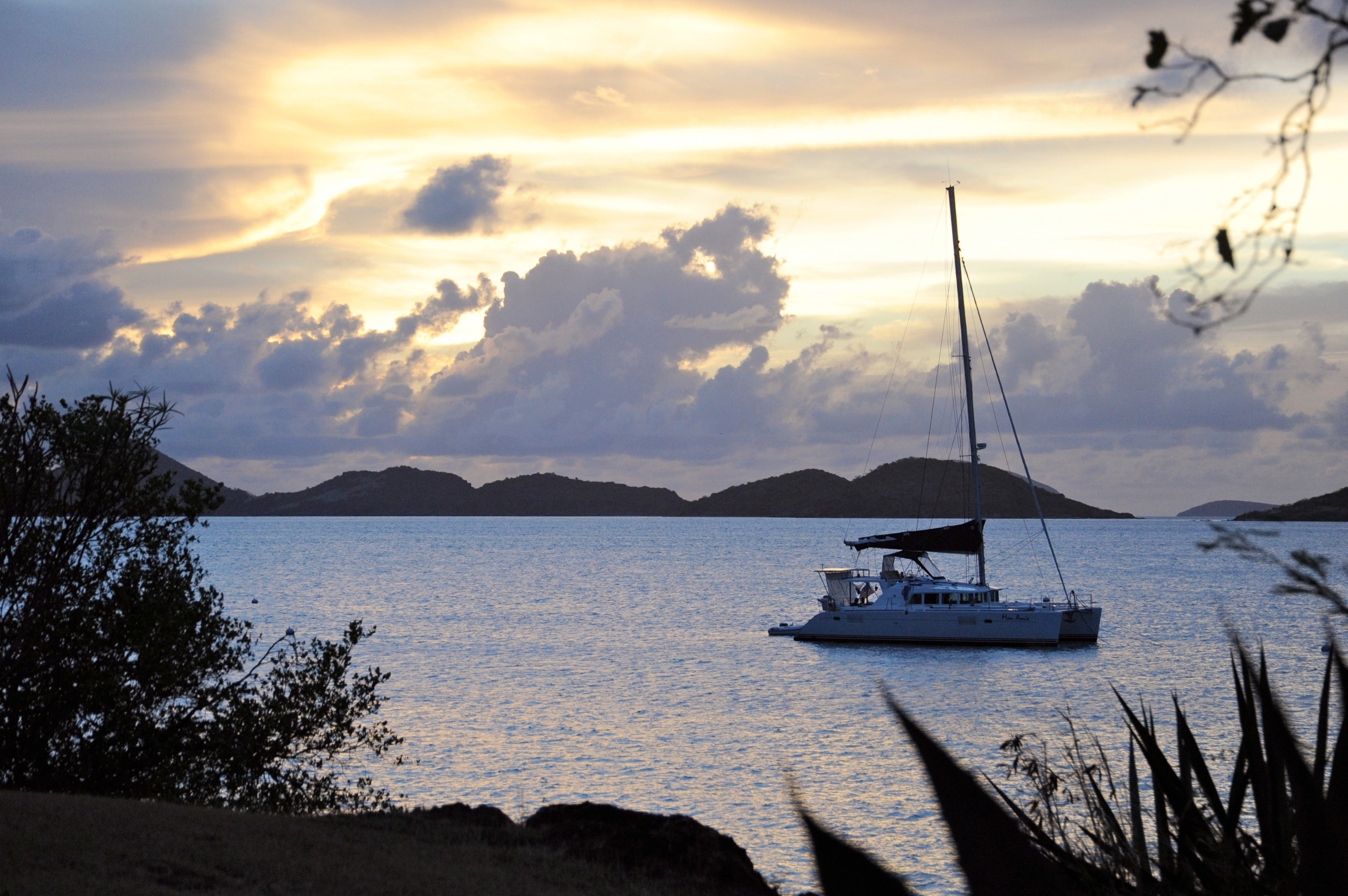 Sunset by Cottage 7 at Caneel Bay — United States Virgin Islands.